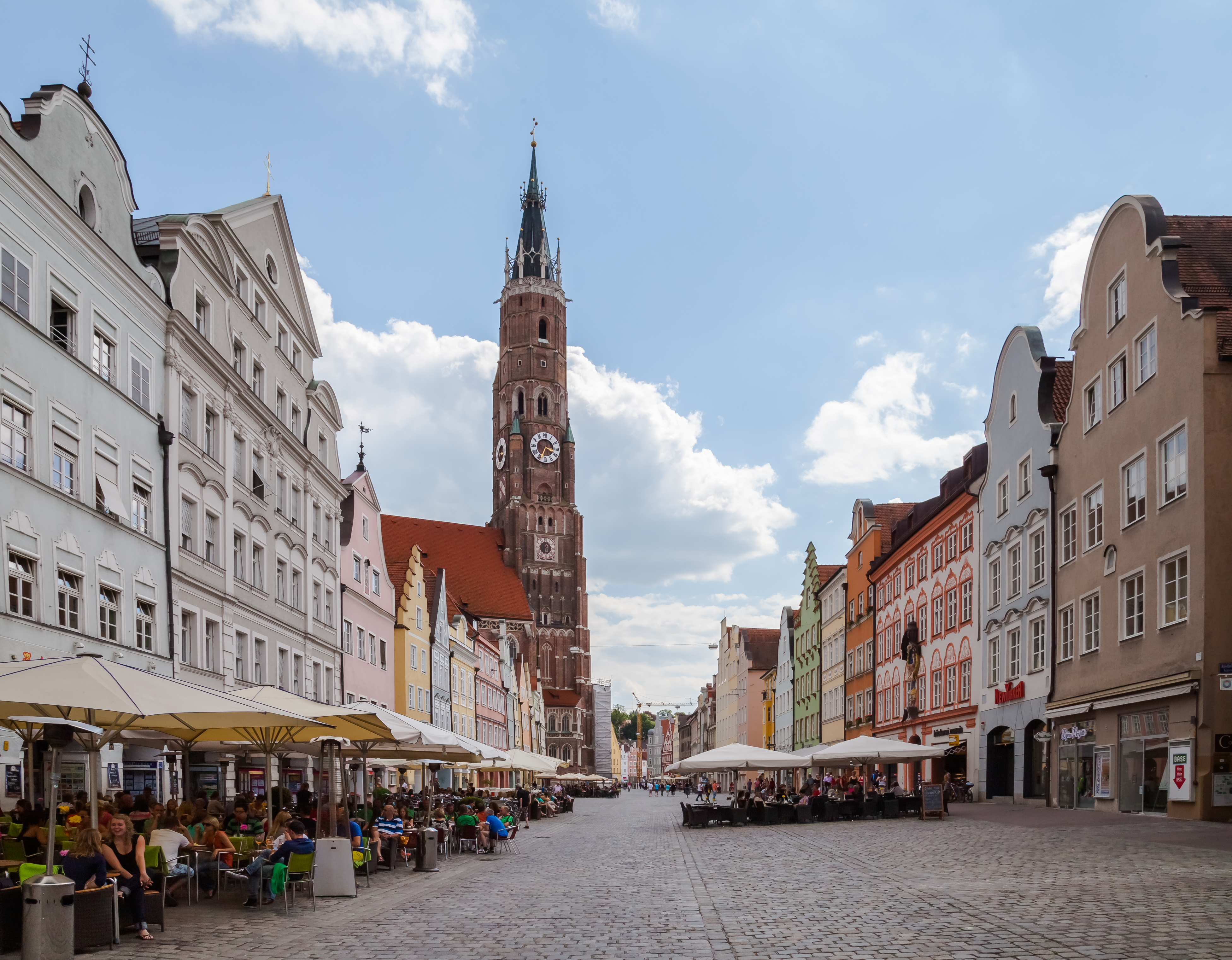 St. Martin, Altstadt St., Landshut, Germany